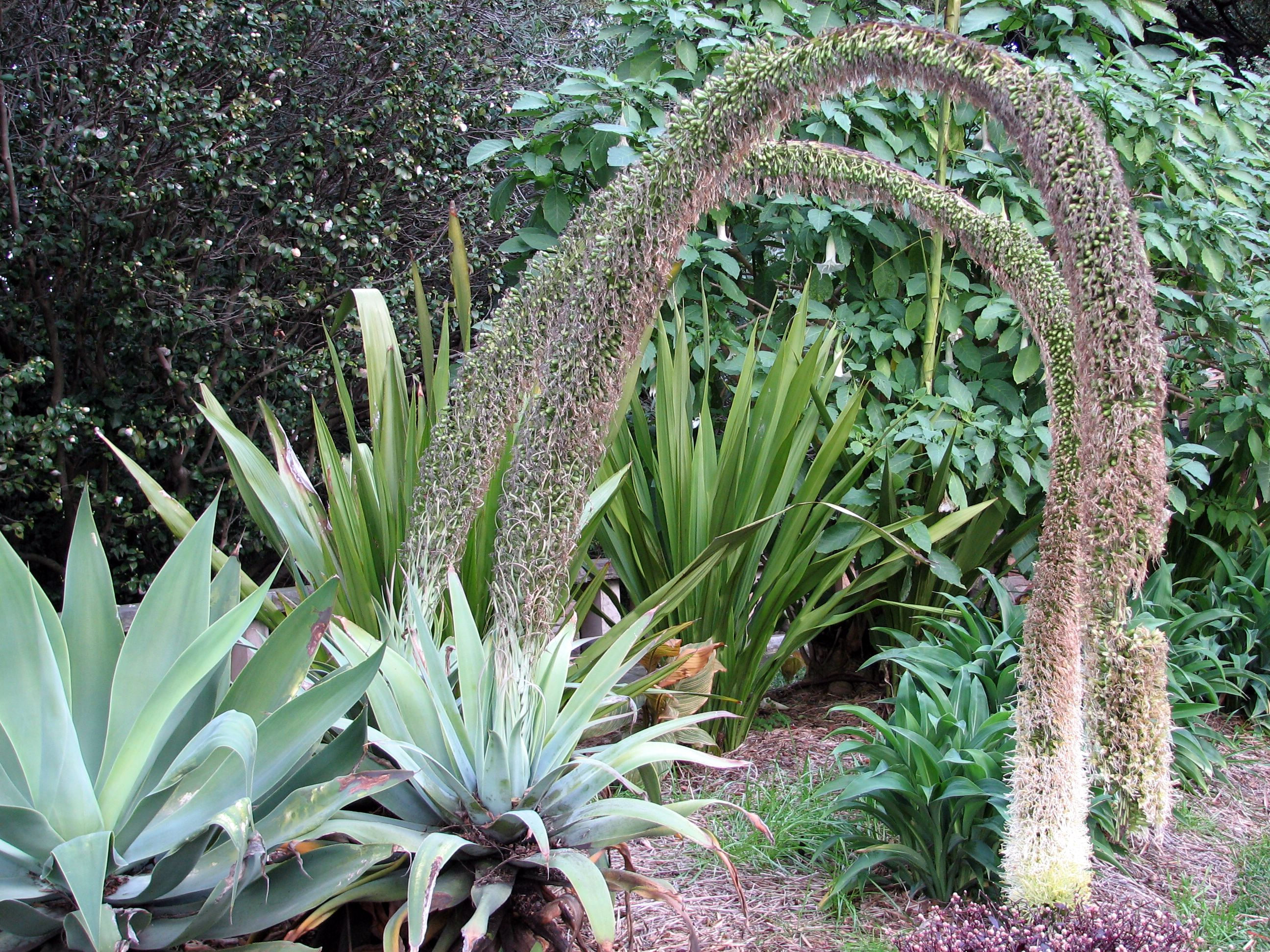 Taken by myself at the Royal Botanic Gardens, Sydney